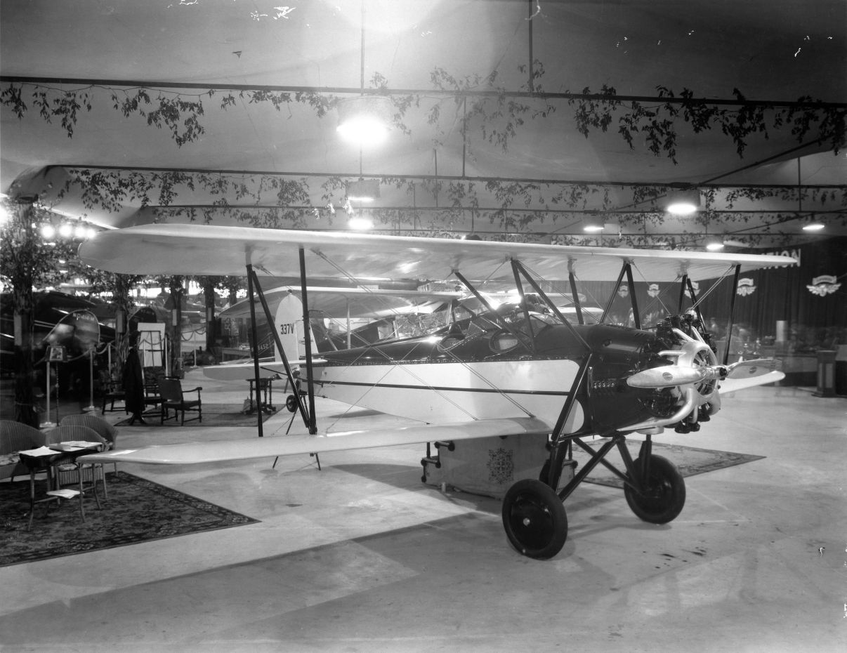 Cliff Henderson Collection image. Clifford "Cliff" Henderson (1896-1984) was one of the early organizers of the National Air Races, and managed the races from 1928 through 1939. Please tag these images so that we can keep the information with the digital files. This photo is for educational purposes only. Repository: San Diego Air and Space Museum